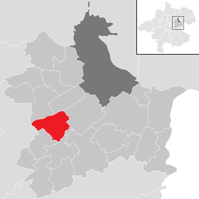 district Linz-Land